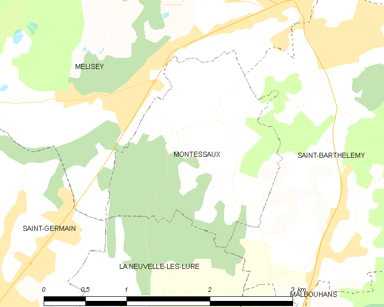 Map of French municipality